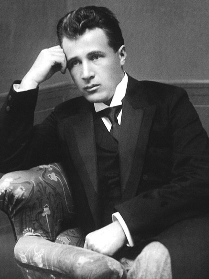 Leevi Madetoja, studio portrait taken by Wilho Dufva, in Oulu, Finland, prior to 1916. The glass negative of this image is in the Oulu County Archives